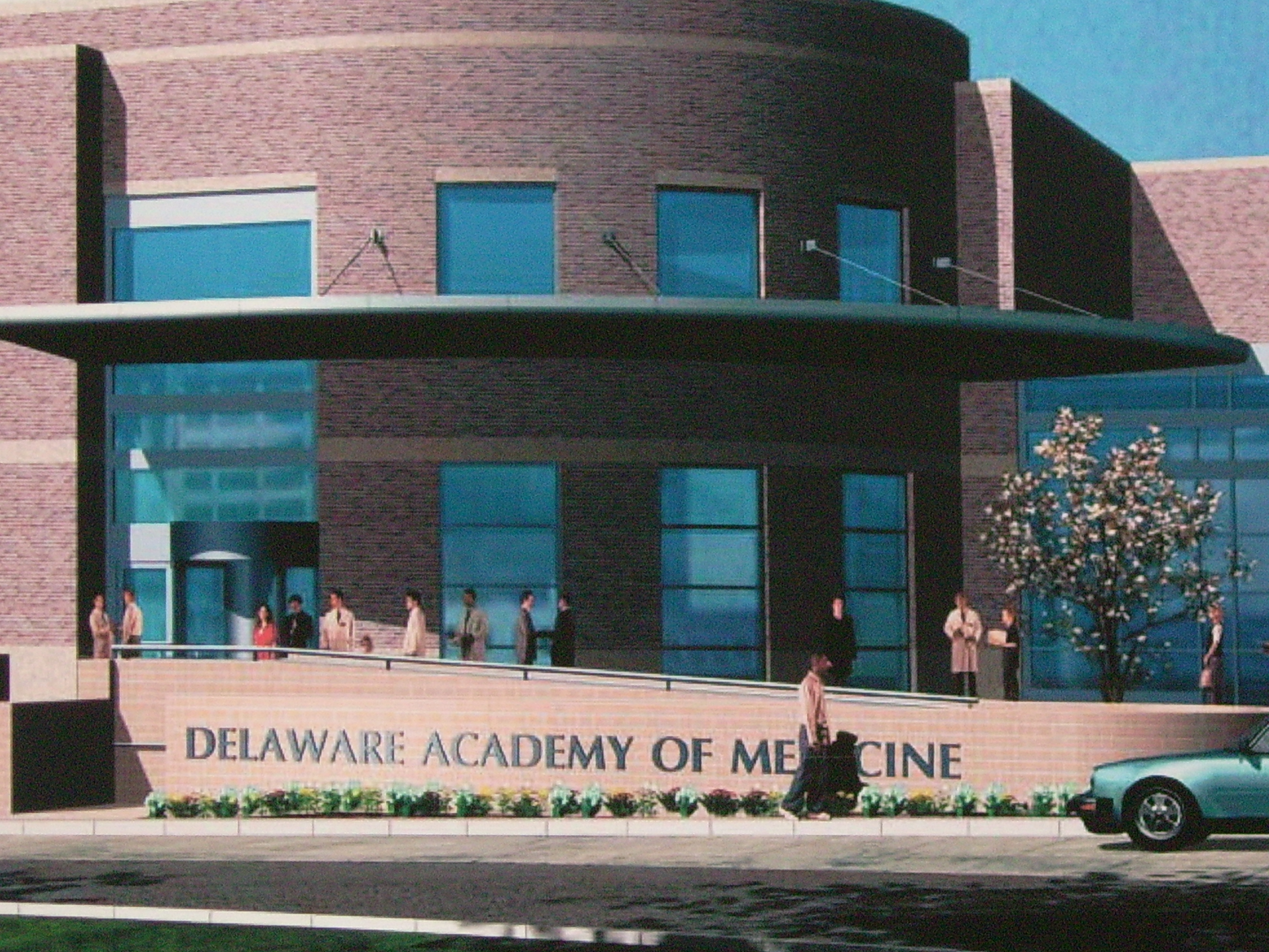 The Academy at its second location: Christiana Hospital